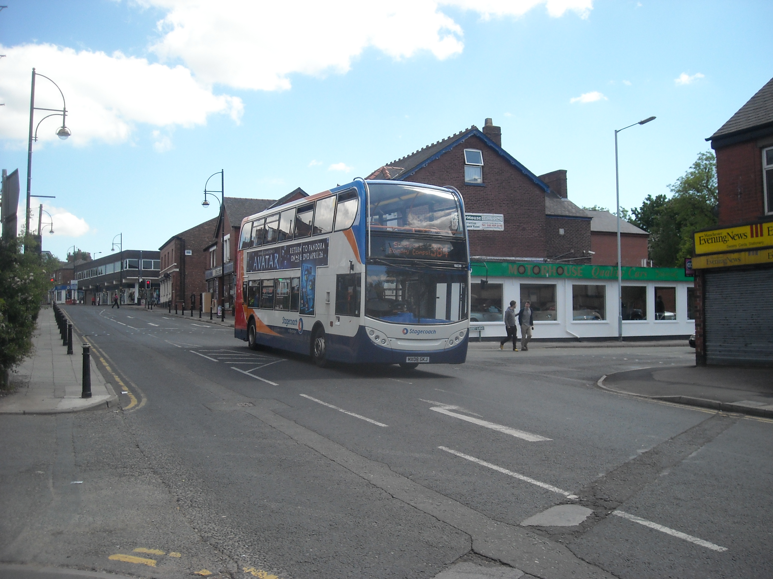 According to the BLOTW website, the details for this bus is: MX08GKJ, AD Tt SFD46LBRA7GXD4460, AD 7422/3, H47/33F, 3/2008, Greater Manchester South 19228 Actually, it was new in March 2008 to Stagecoach Manchester and not Greater Manchester South. It's seen here in Marple on the 384 service towards Stockport on Friday 28th May